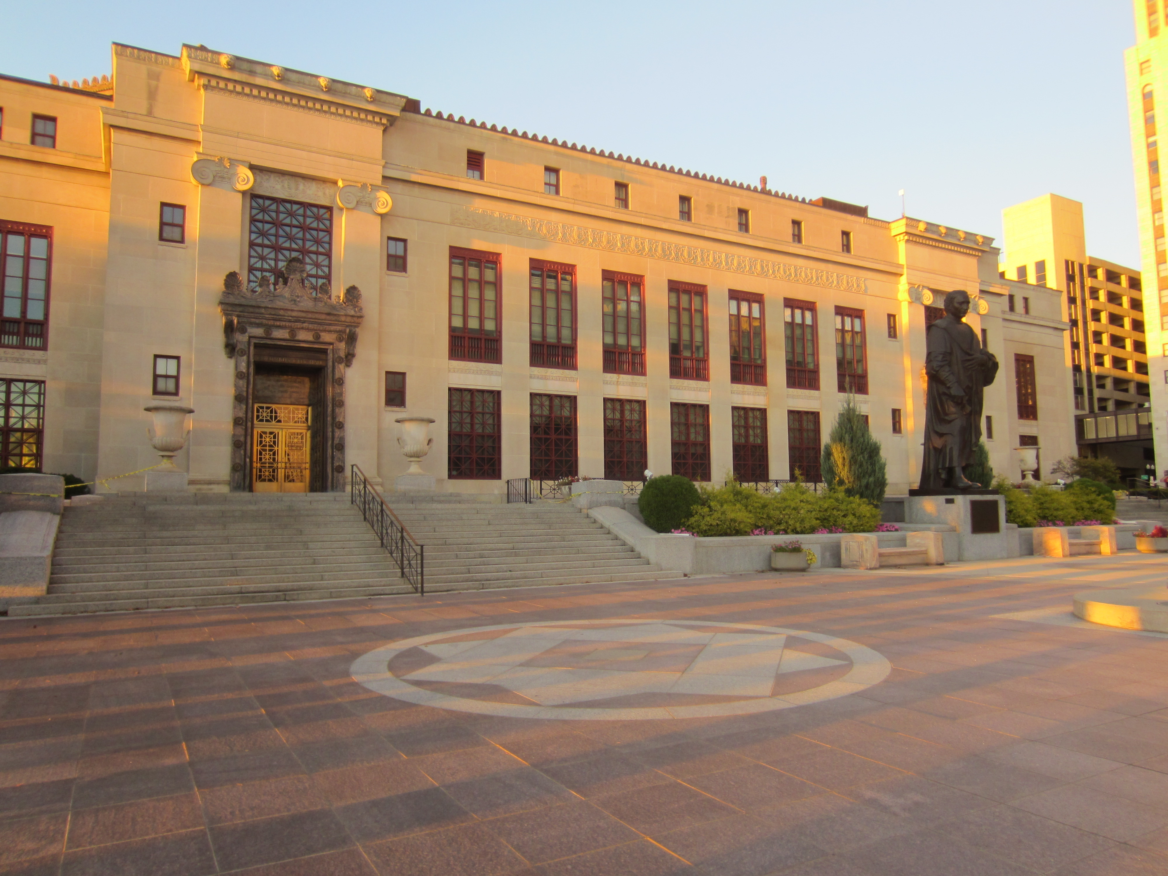 Columbus, Ohio (2018)